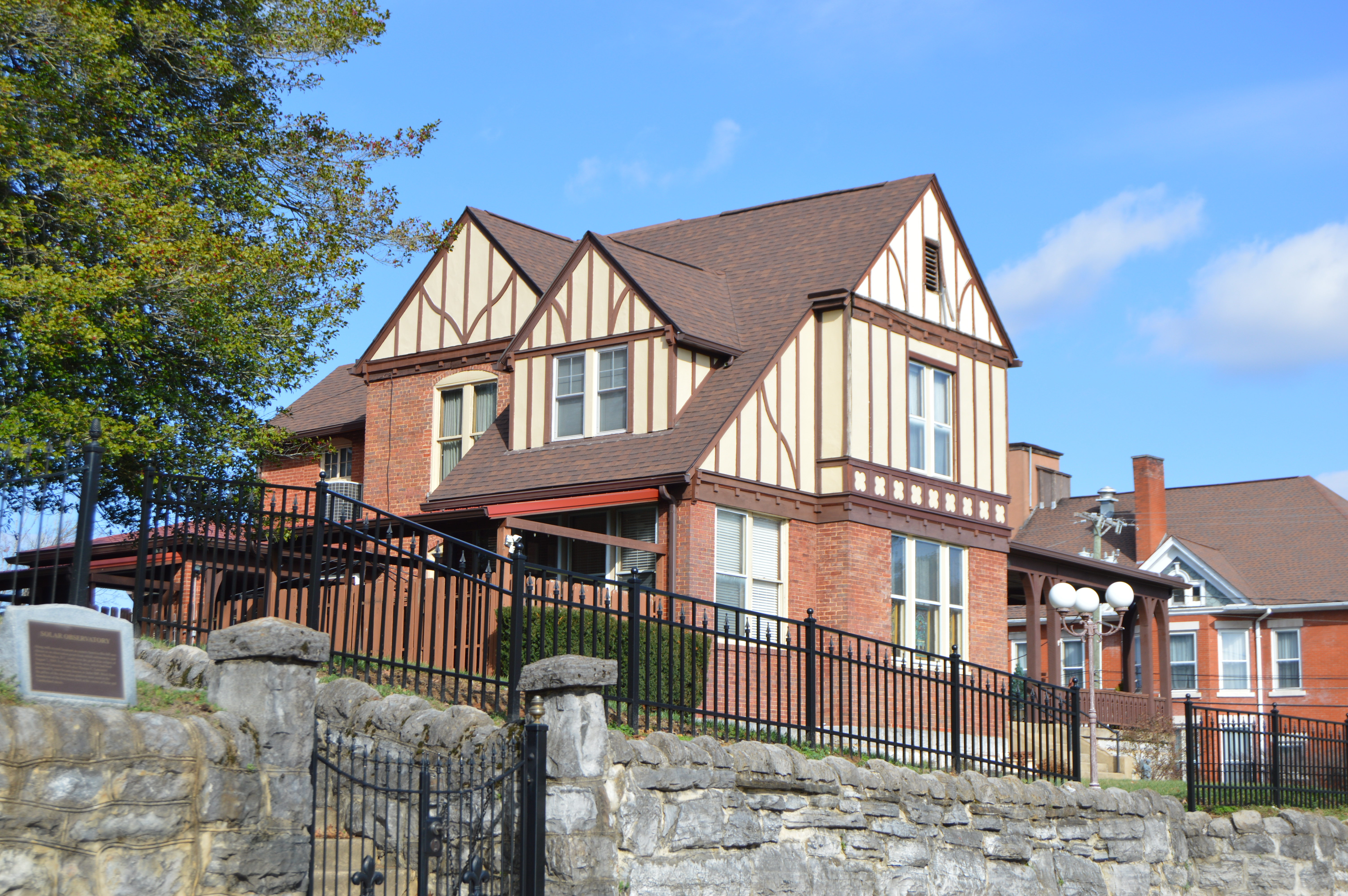 Southern and eastern sides of the house on the southwestern corner of the intersection of Sycamore and Solar Streets in Bristol, Virginia, United States. The house is part of the Solar Hill Historic District, a historic district that is listed on the National Register of Historic Places.